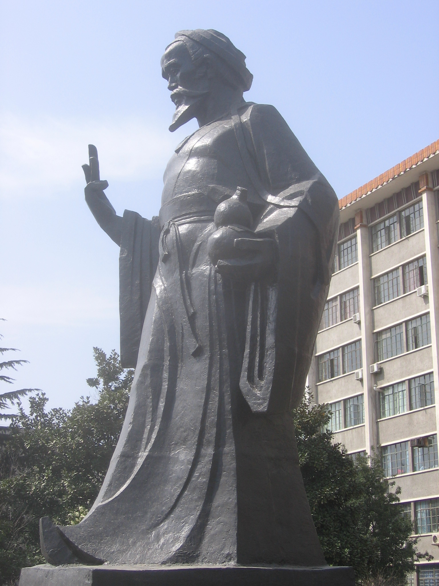 Statue of Hua Tuo (華佗) in front of the Anhui College of Traditional Chinese Medicine in Hefei, the provincial capital of Anhui.